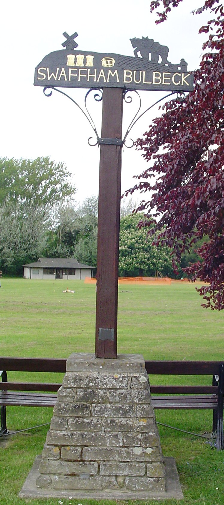 Signpost in Swaffam Bulbeck